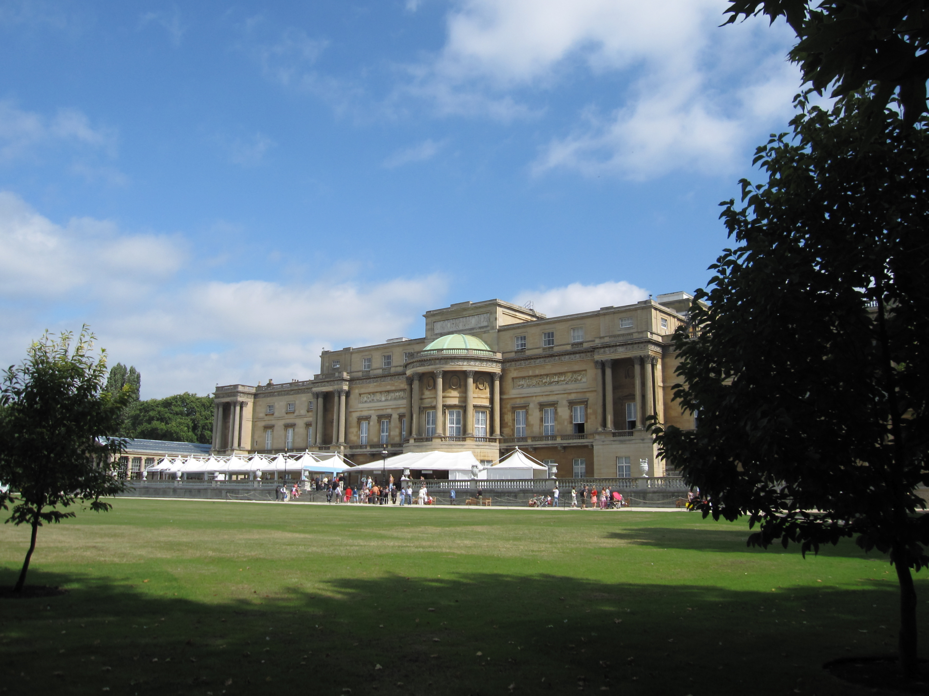 Garden view of Buckingham Palace